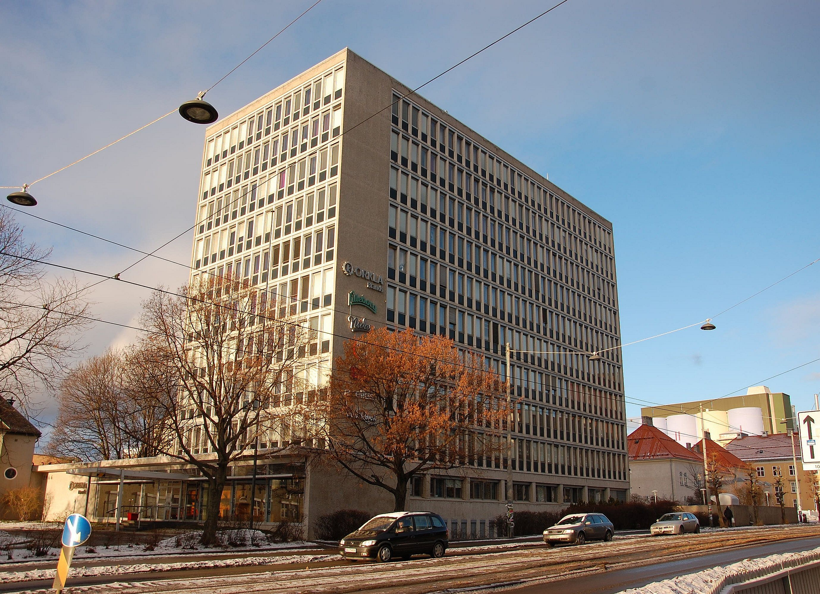 Lilleborg fabrikker, officebuilding in Sandakerveien 54-56 in Oslo. Architects Gudolf Blakstad and Herman Munthe-Kaas.